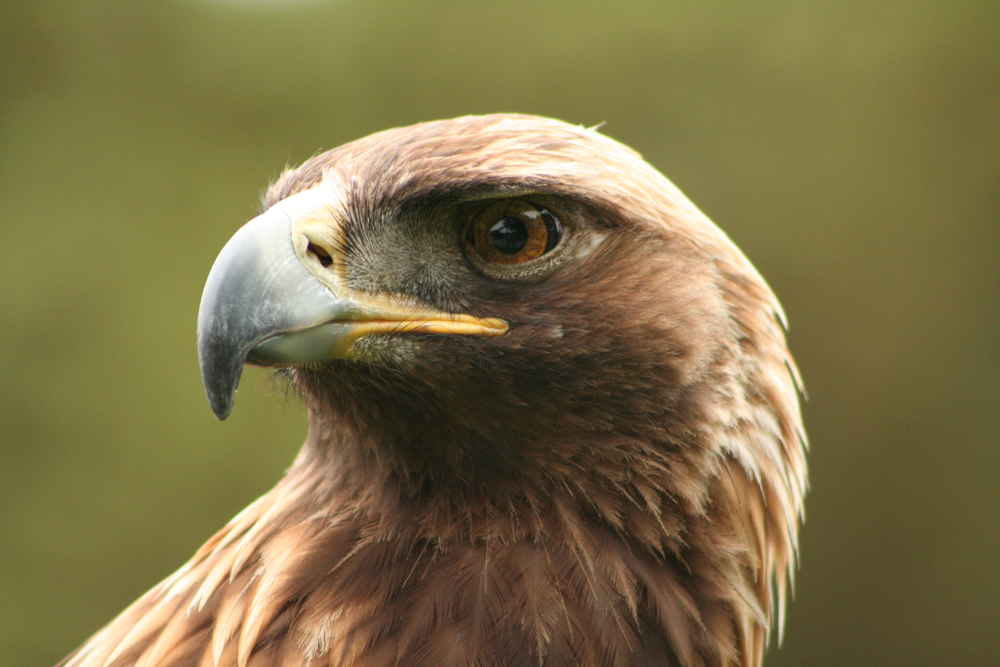 A portrait of a Golden Eagle (Aquila chrysaetos).Hawk at sf zoo